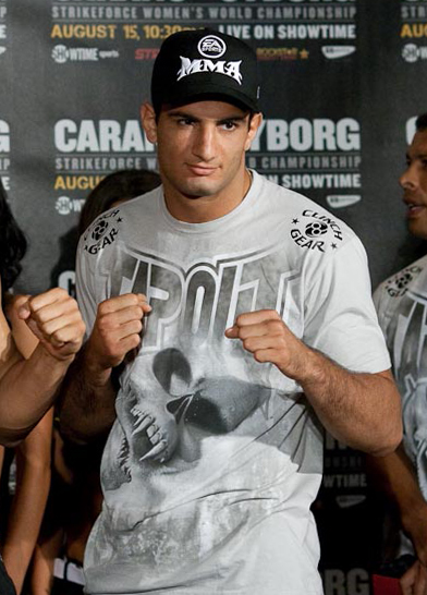 Dutch-Armenian mixed martial arts fighter Gegard Mousasi, at the weigh-in before the Strikeforce: Carano vs. Cyborg event.